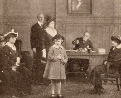 Still from the American drama short film When Sorrow Weeps (1917) with child actress Mary McAllister, on page 28 of the June 30, 1917 Exhibitors Herald. This film was the seventh film of the short film series Do Children Count? (1917), all of which starred Mary McAllister.